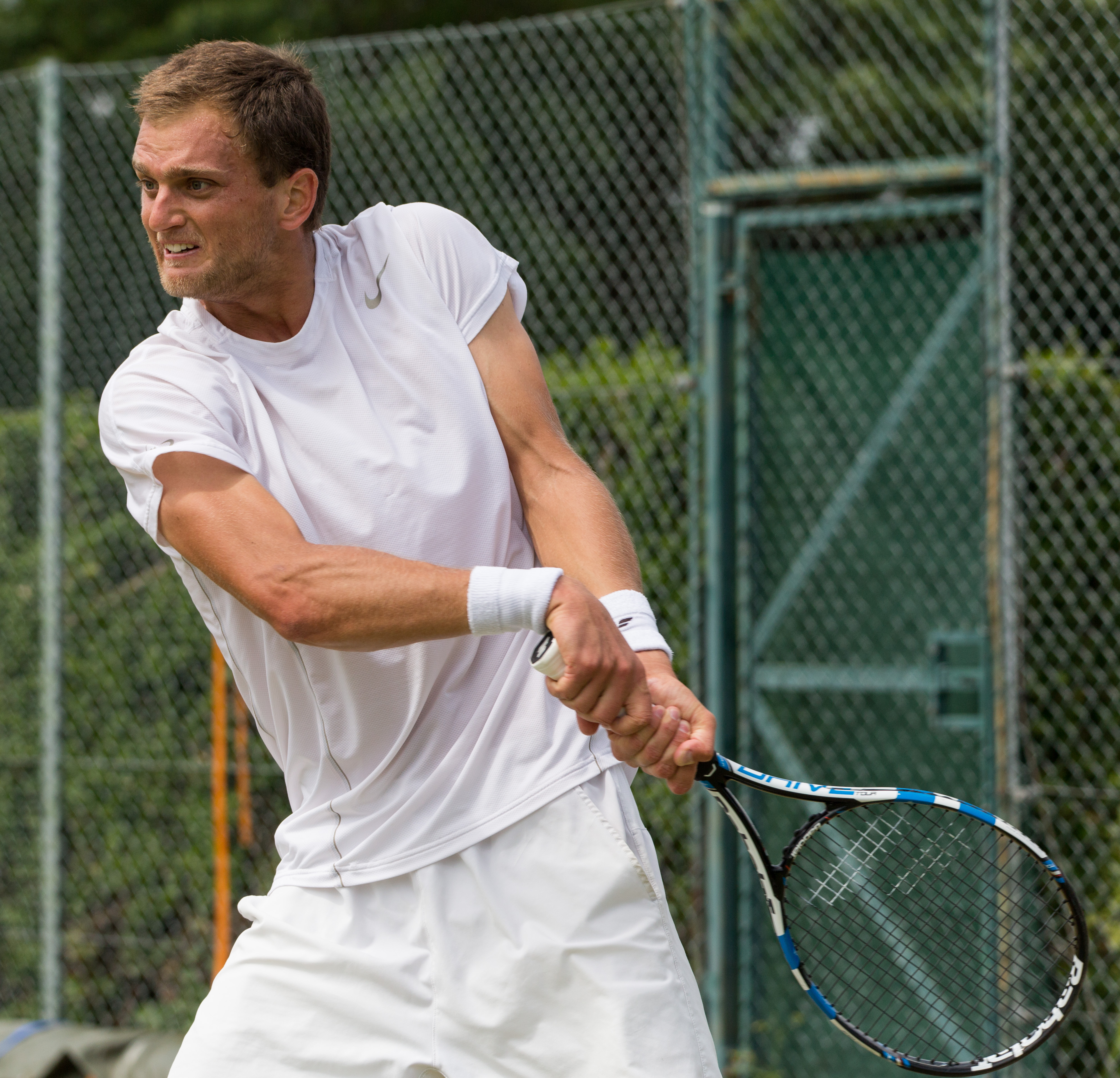 Aleksandr Nedovyesov competing in the third round of the 2015 Wimbledon Qualifying Tournament at the Bank of England Sports Grounds in Roehampton, England. The winners of three rounds of competition qualify for the main draw of Wimbledon the following week.